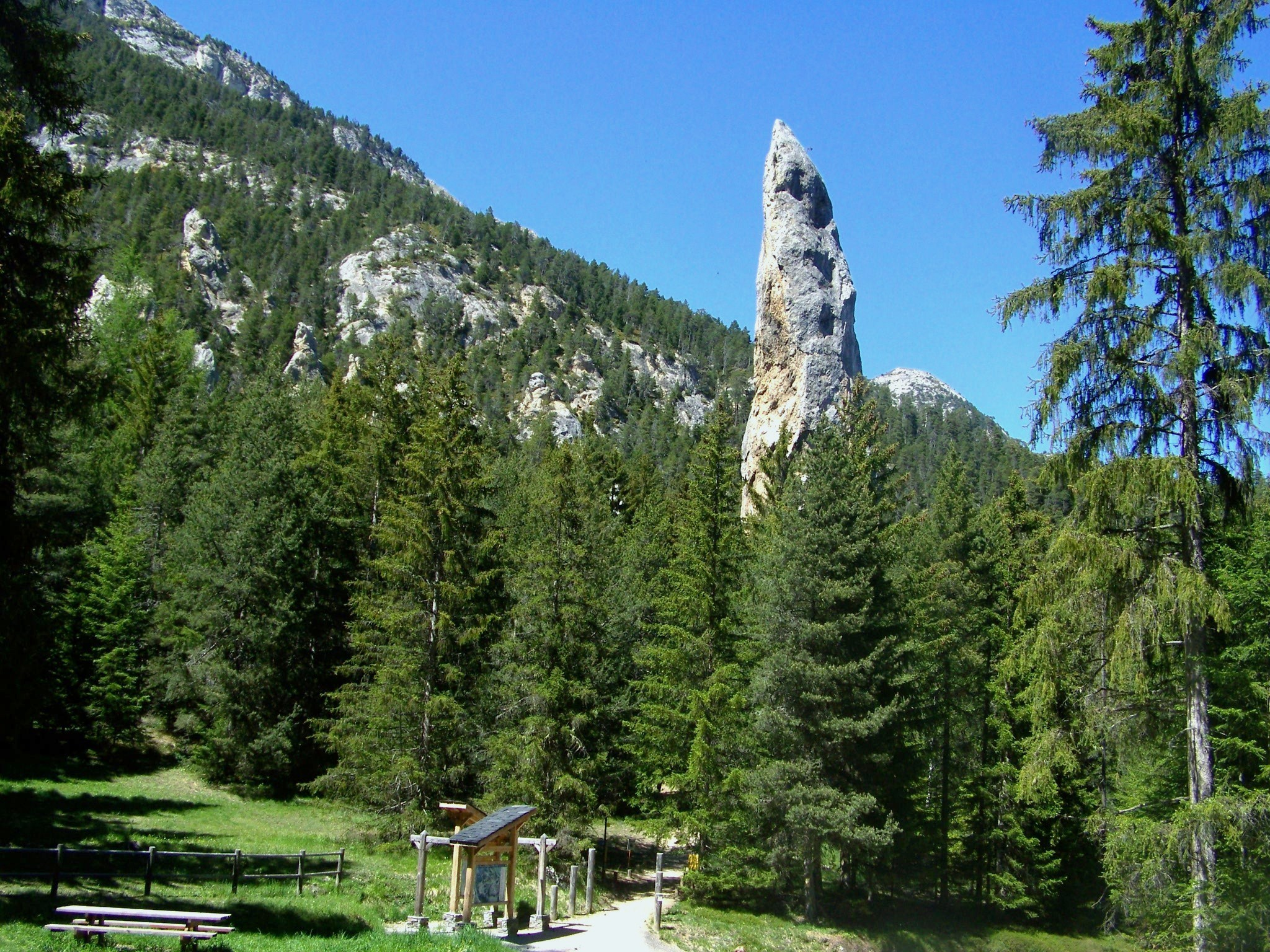 Monolith of Sardières situated in the Alps in Savoie, France.